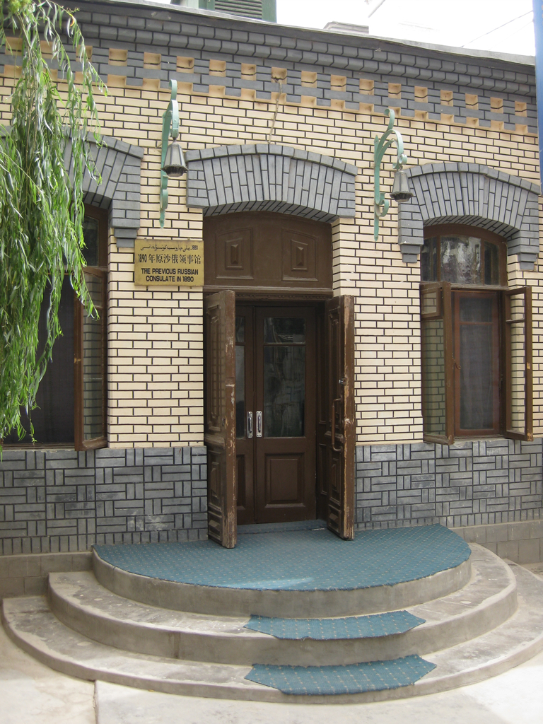 Former Russian consulate in Kashgar